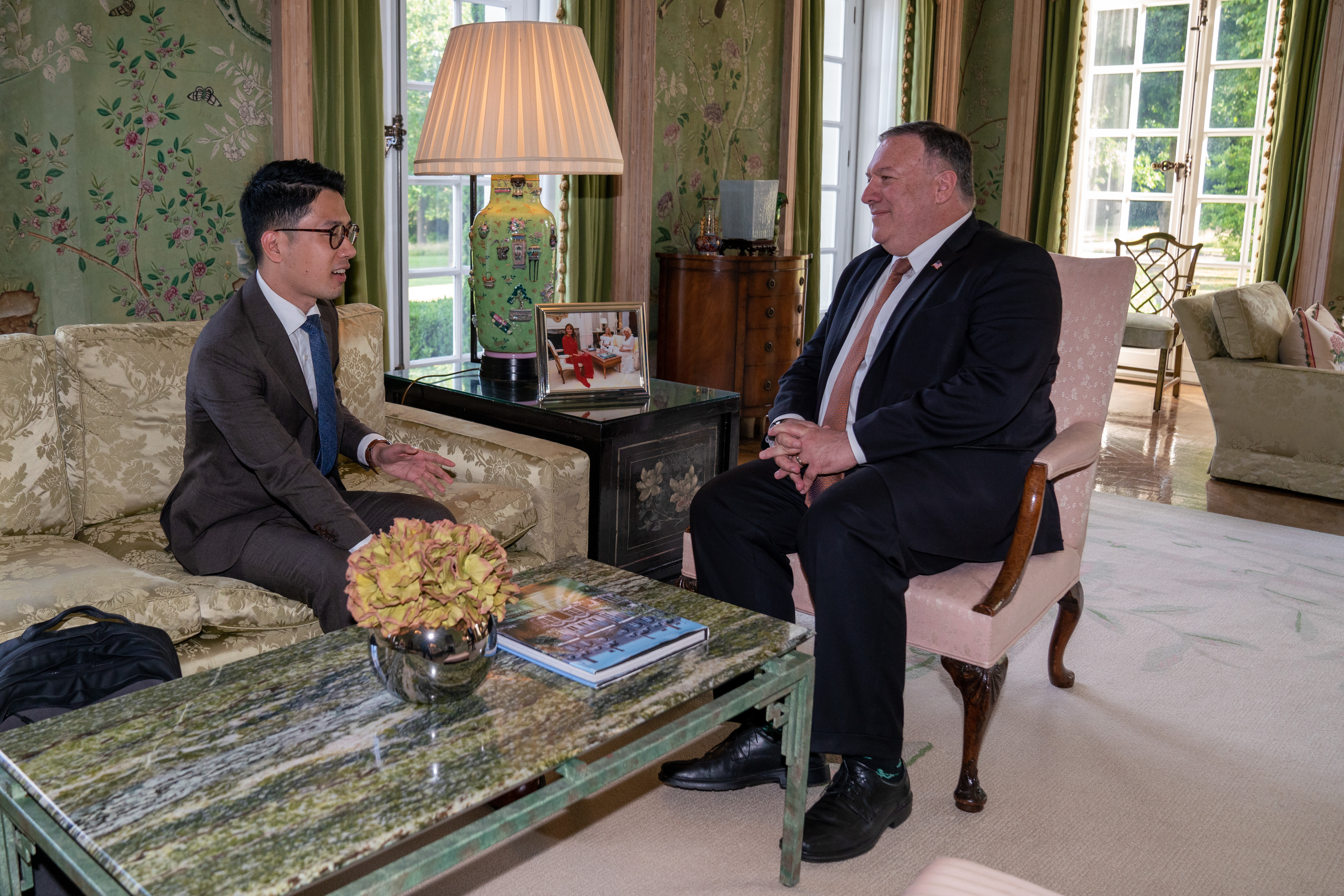 Secretary of State Michael R. Pompeo participates in a pull aside with Hong Kong Democracy Leader Nathan Law, in London, United Kingdom, on July 21, 2020. [State Department photo by Ronny Przysucha/ Public Domain]